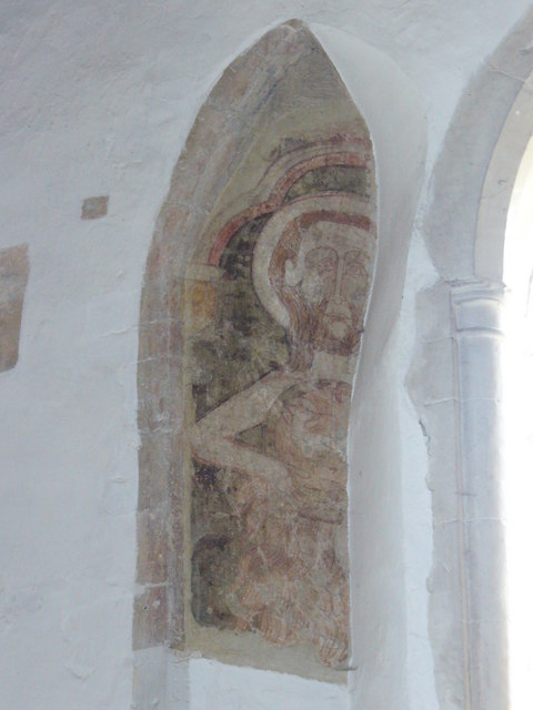 Medieval Wall Painting St John the Baptist (ca 1220), high in a lancet window on the south wall of Godalming's parish church, St Peter and St Paul.